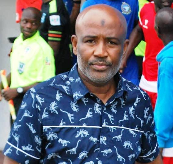 Nigerian Football Coach and head coach of Enyimba International Fc